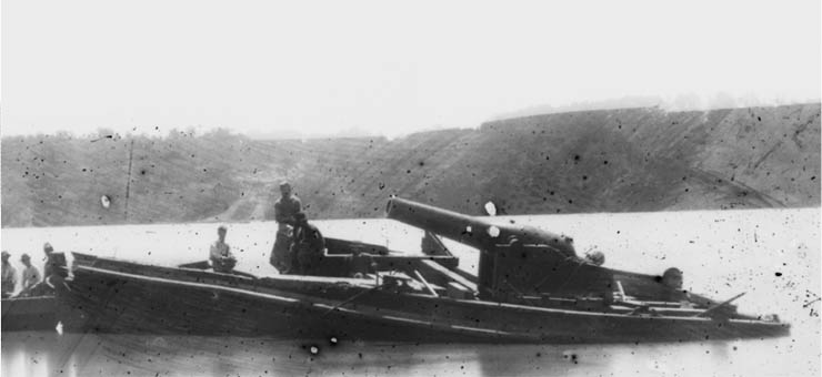 The Wreck of the Gunboat CSS Drewry (Almost Certainly): Library of Congress LC-B815- 1124. ORN Series I Vol. 11:669, 688-689.